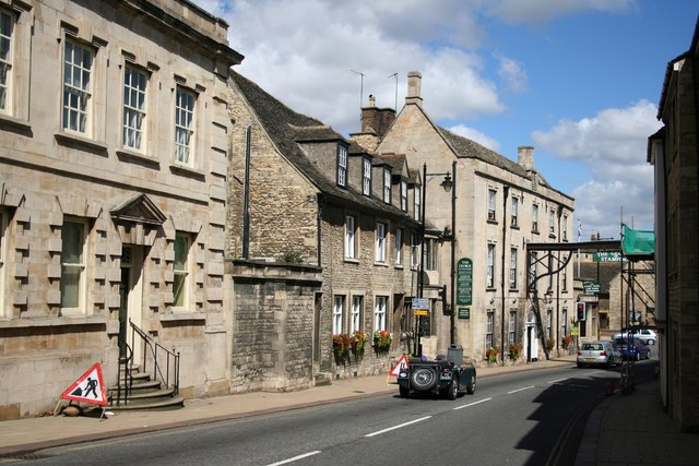 The George at Stamford 17th and 18th century buildings of the famous George Hotel in Stamford